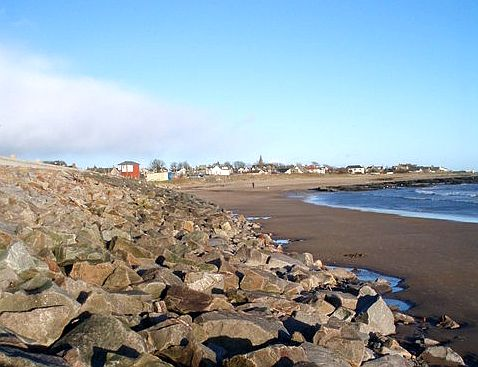 Coastal defences Carnoustie Beach The latest addition to coastal defences at this location. A more pleasing colour than the previous grey and now topped by a nice wall.